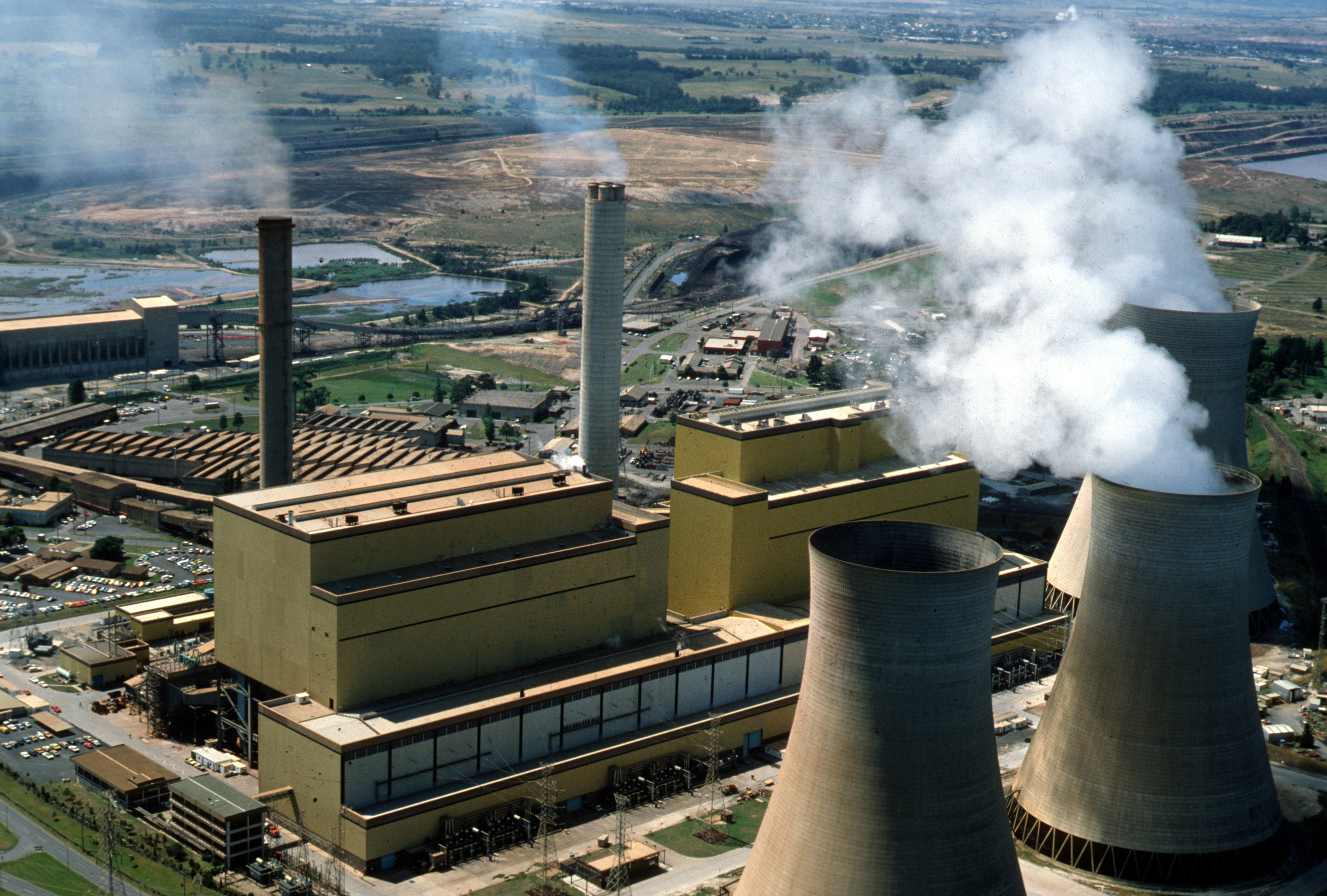 Yallourn W Power Station, Victoria.